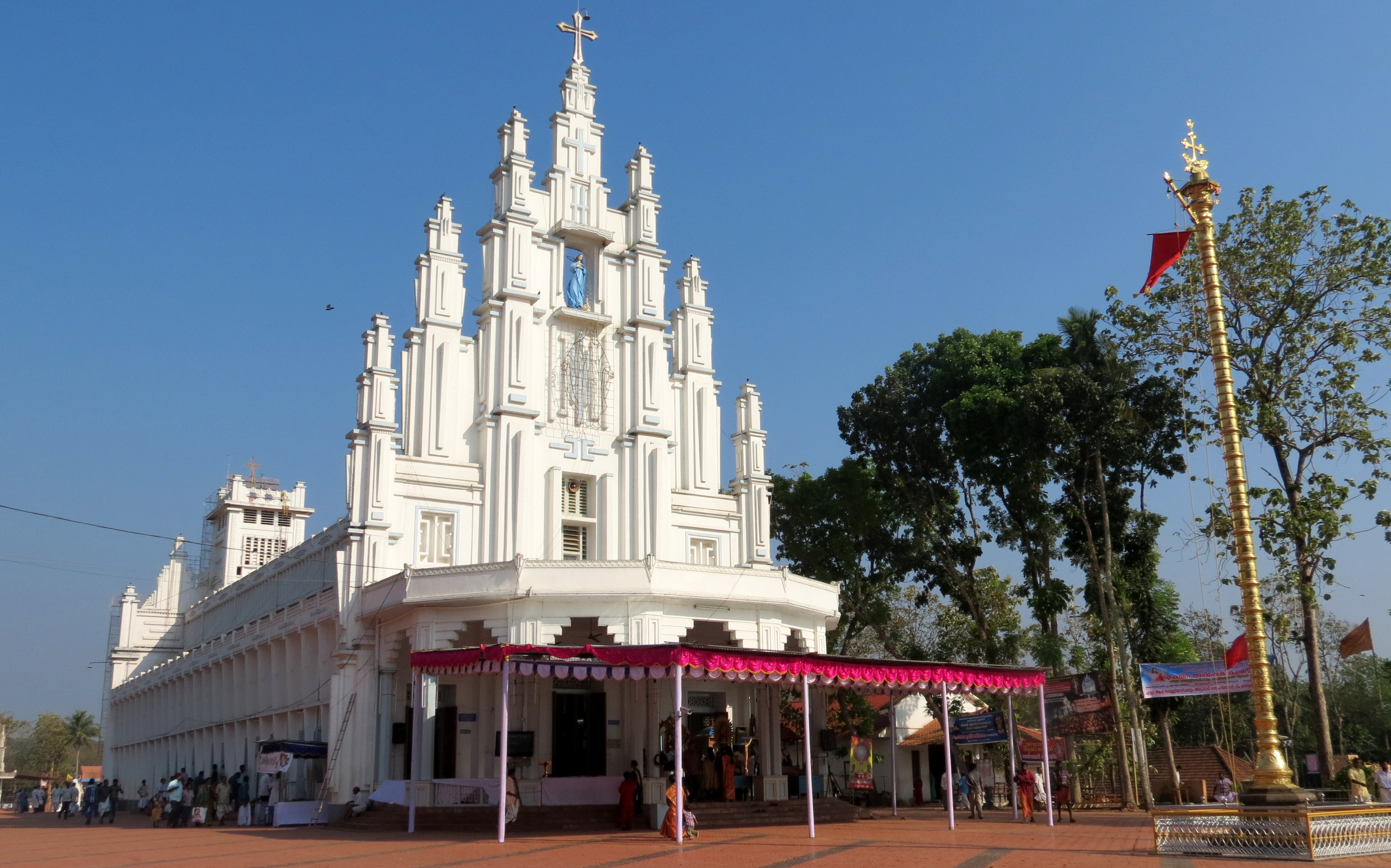 St Marys Forane Church Athirampuzha, Kerala, India